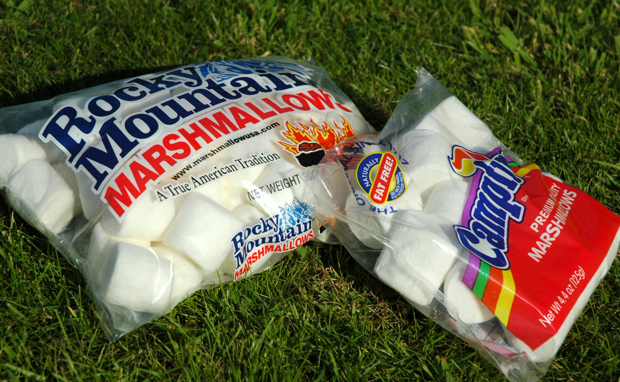 Two bags of American-style marshmallows on a lawn